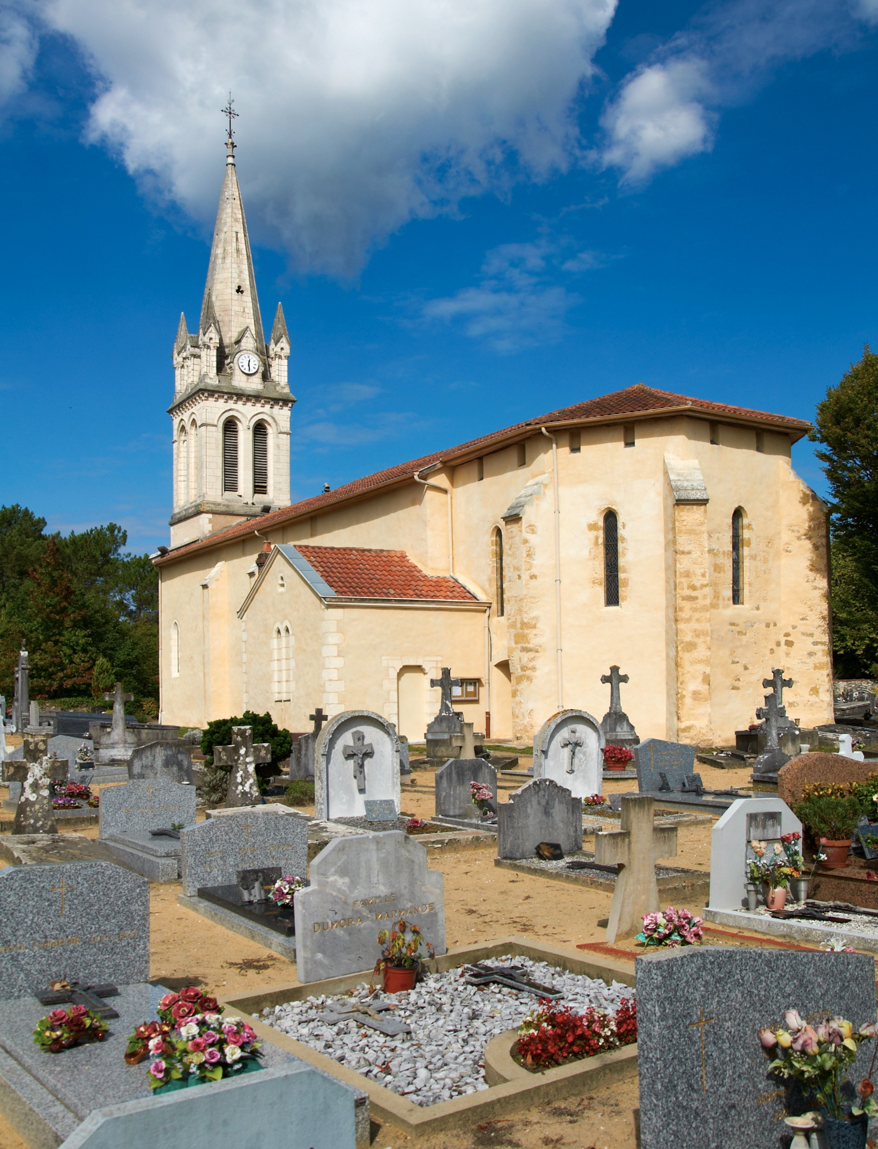 Church St. André in Seignosse Bourg/France